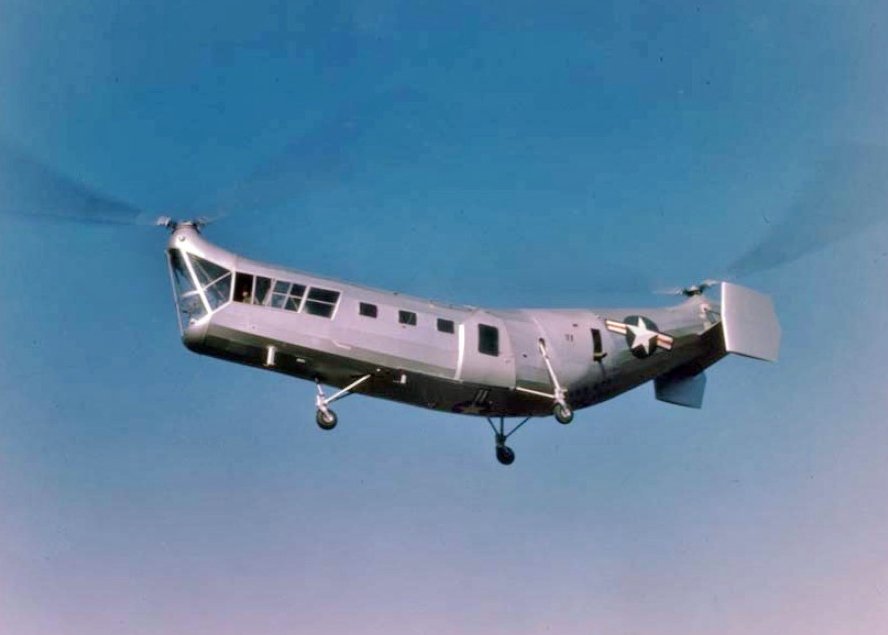 A U.S. Coast Guard Piasecki HRP-1G Rescuer. The USCG operated three Flying Bananas (as they were colloqually known) starting in 1948. They were based at CGAS Elizabeth City, North Carolina, and used until 1951. CG-111826 crashed in 1951, the other two were returned to the U.S. Navy.